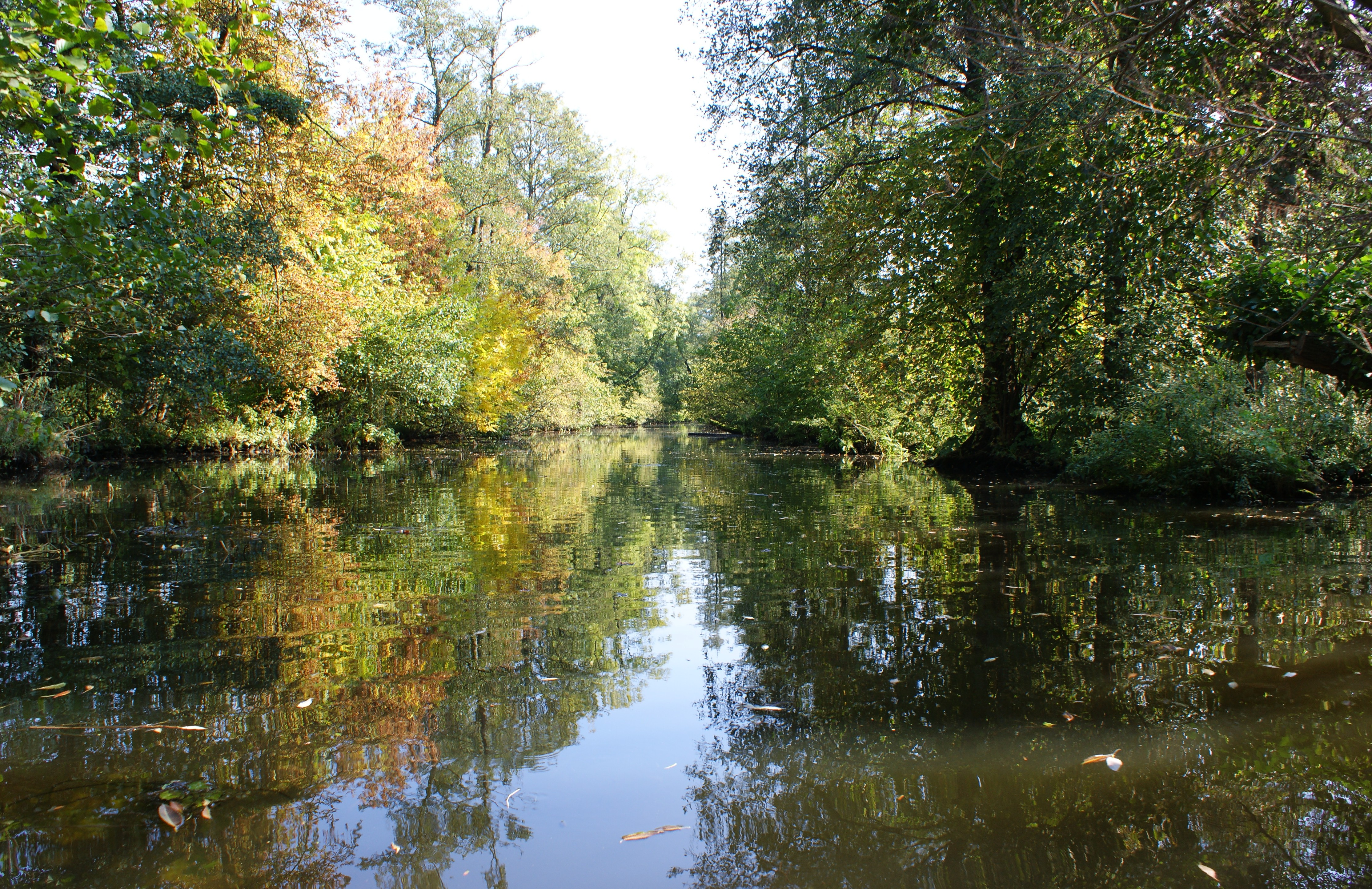 Canal Lesniczowka on Dębina Island in Odra Valley in Szczecin (NW Poland)